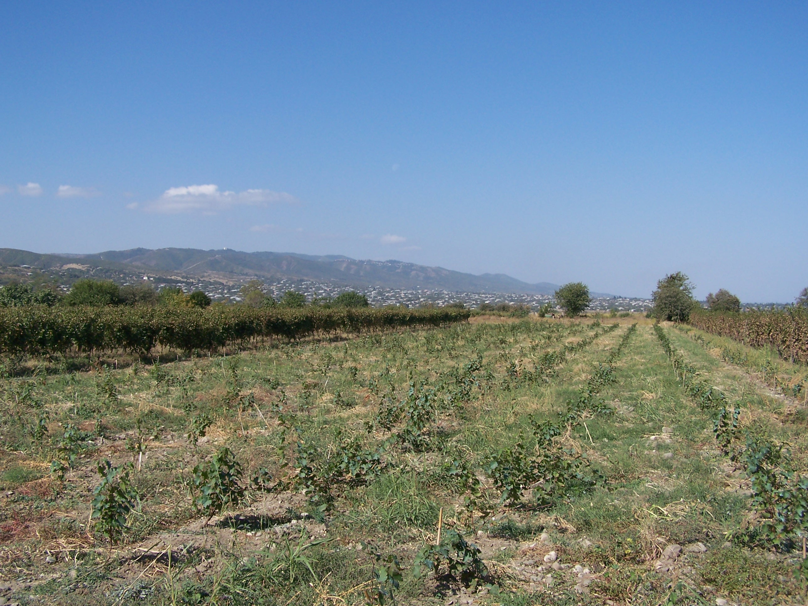 Vineyard in Kakheti